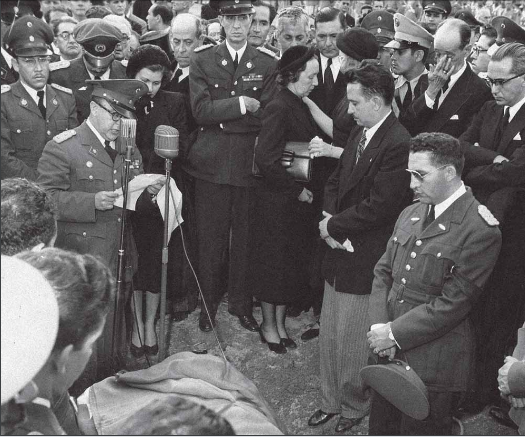 Entierro de Carlos Delgado Chalbaud